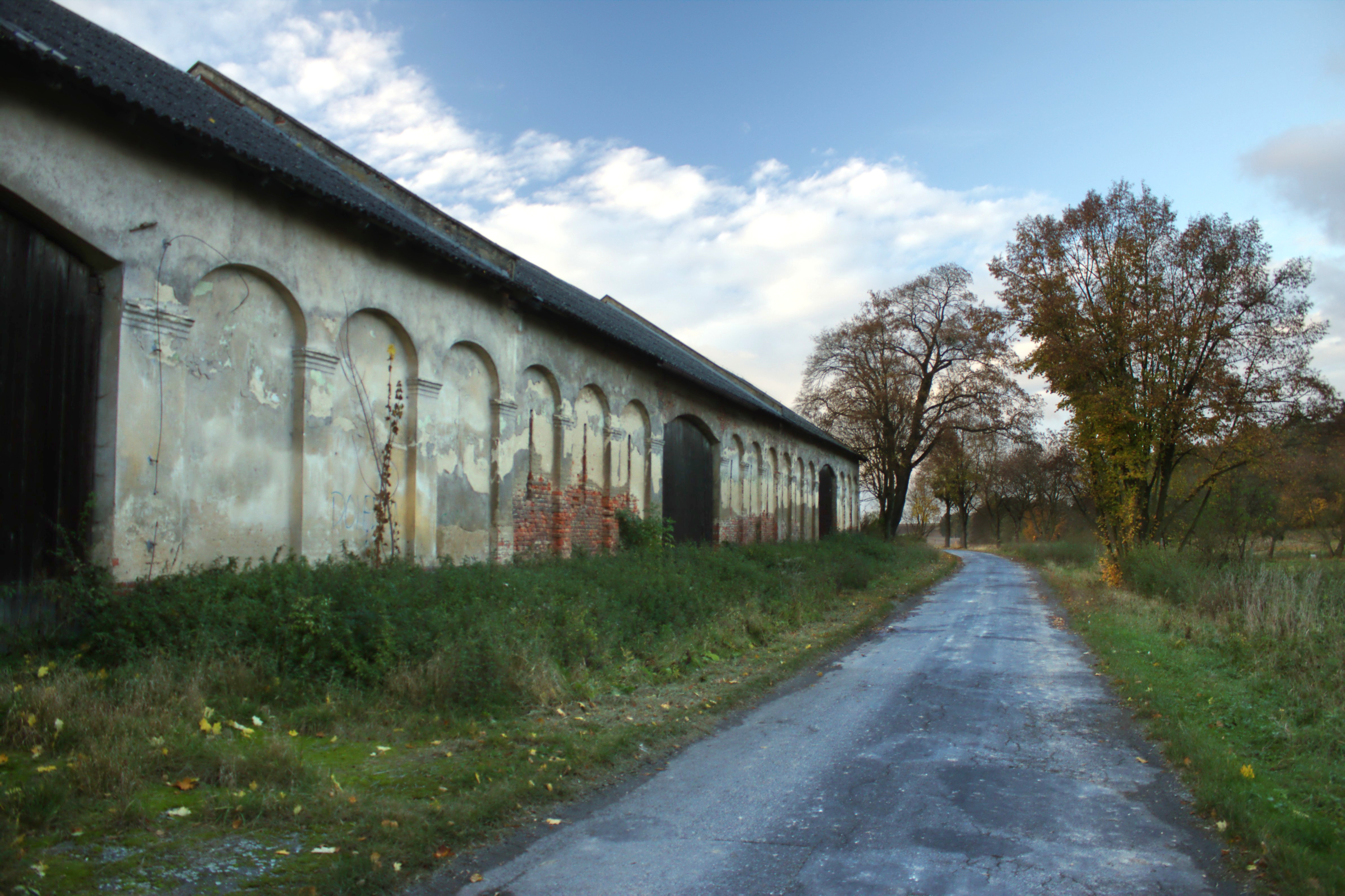 Former farm of Dolędzin, now a settlement close to Modzurów, Poland